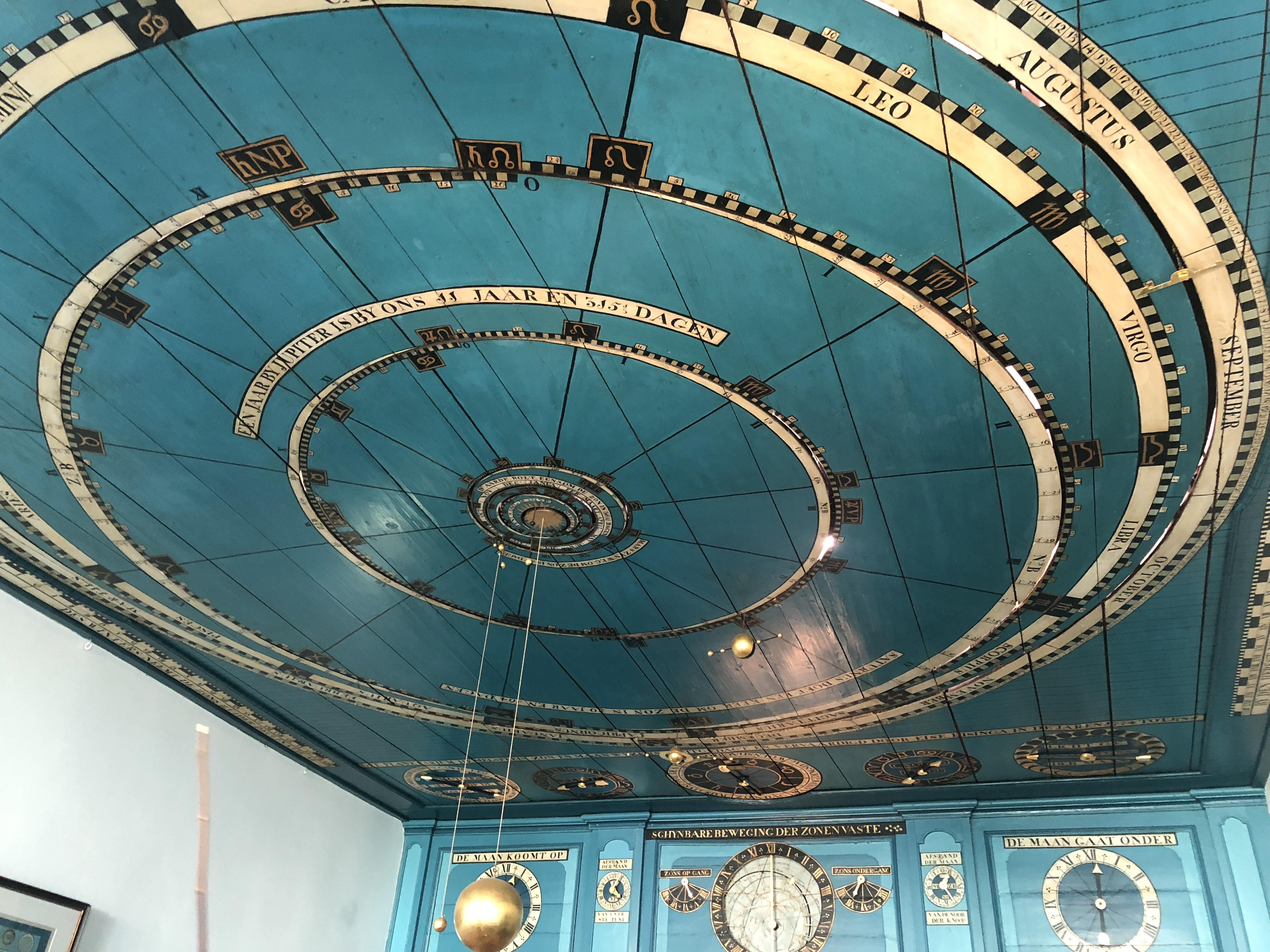 Eise Eisinga Planetarium in Franeker, built 1774 to 1781